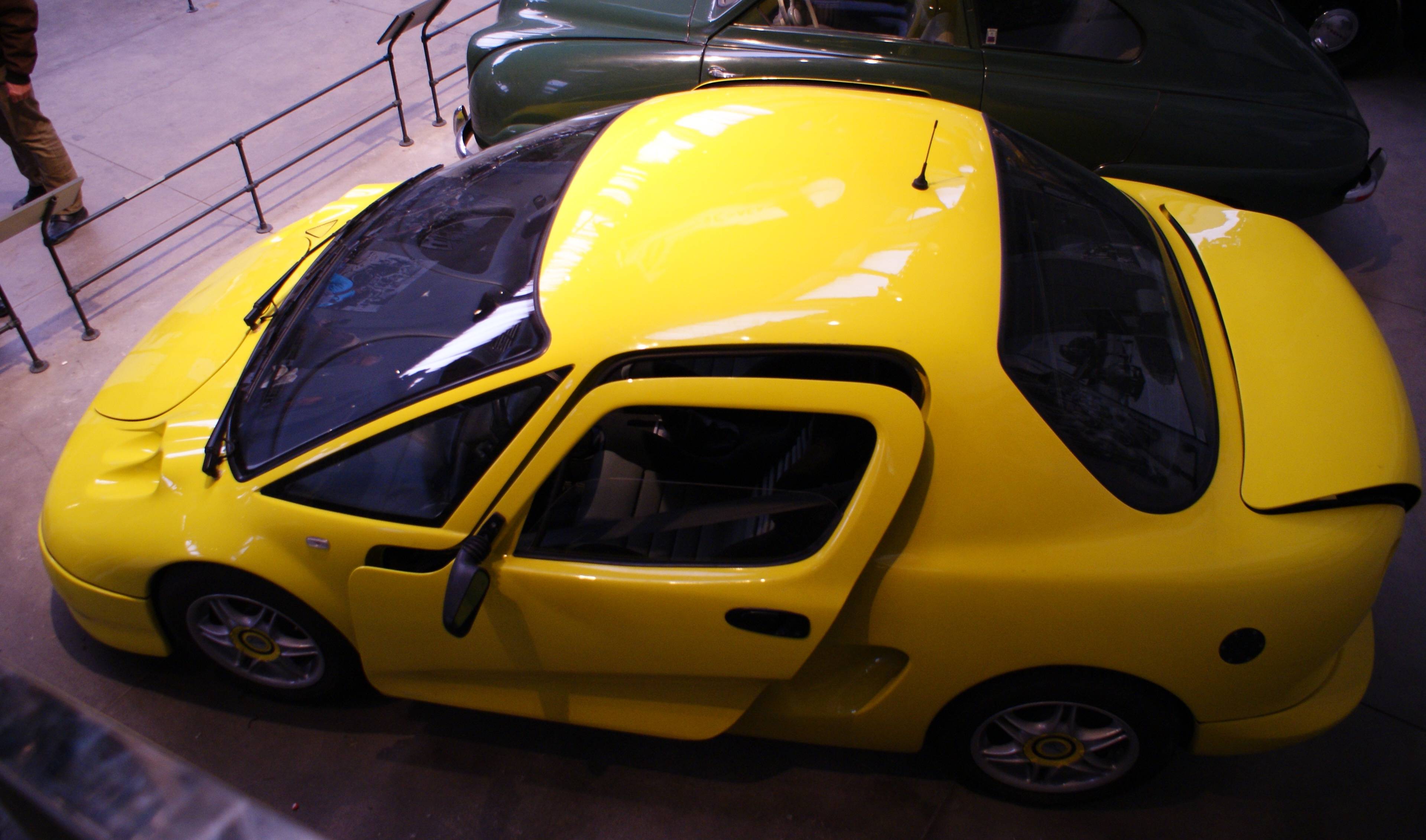 Solon, Swedish hybrid car.